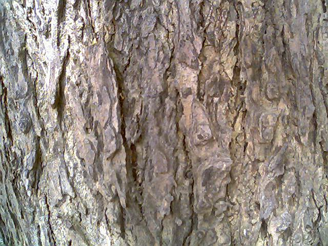 Bark of Azadirechta indica tree ocurring all over Deccan plateau, India.It has fungicidal, insectcidal properties.